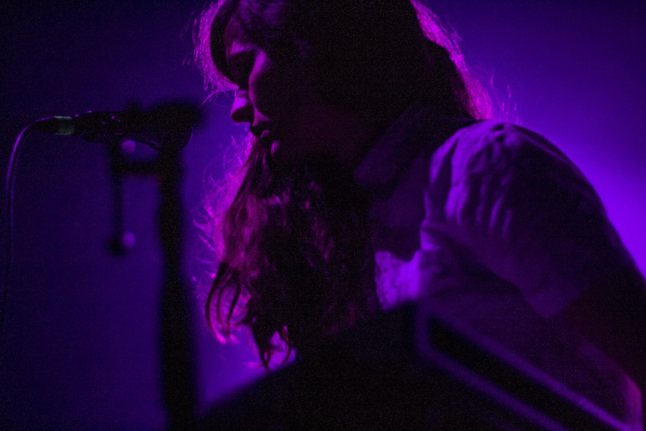 Another photo of said singer